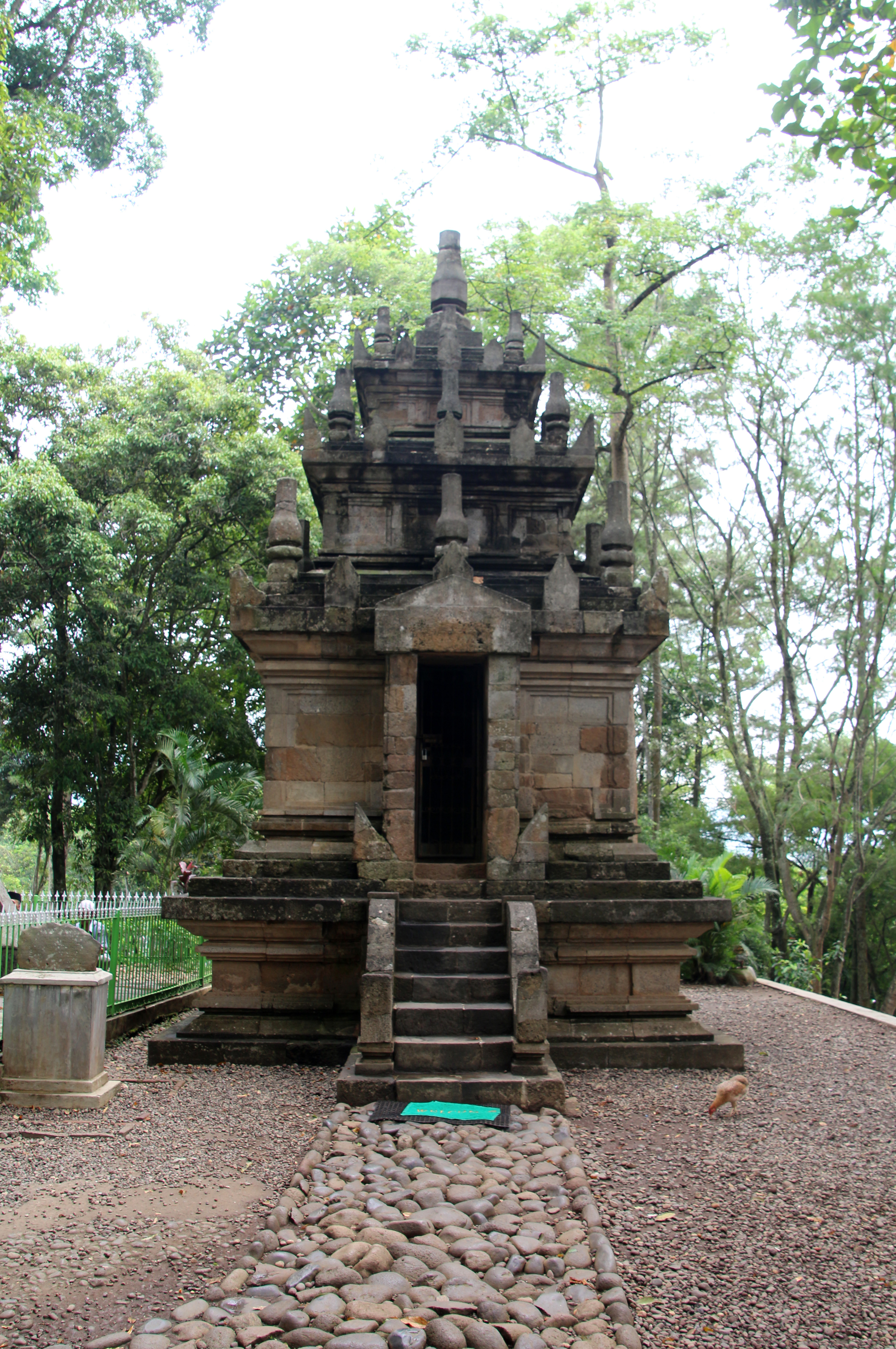 Candi Cangkuang, 8th century Shivaist Hindu temple, located in Leles, Garut Regency, West Java, Indonesia.